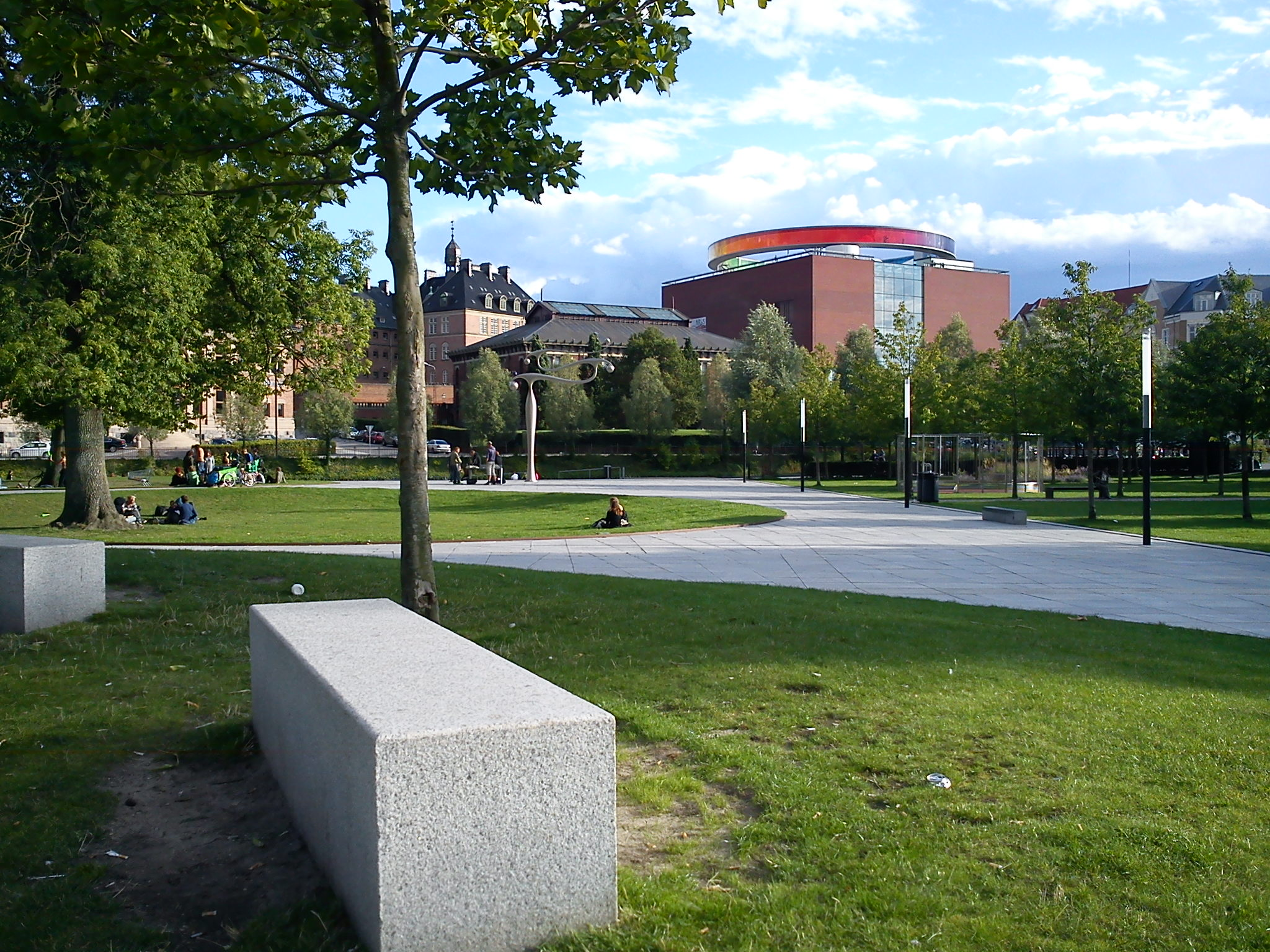 Mølleparken